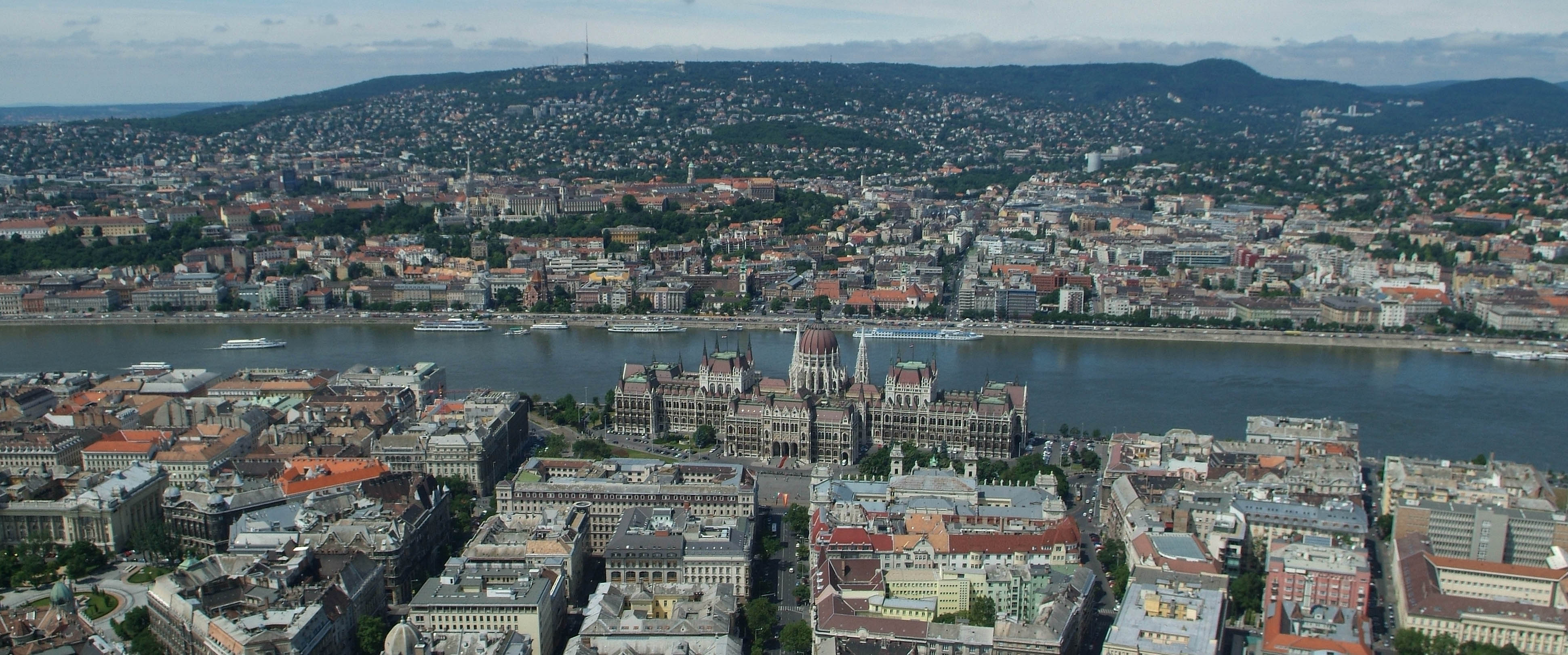 Duna panorama, Hungary, aerial photography